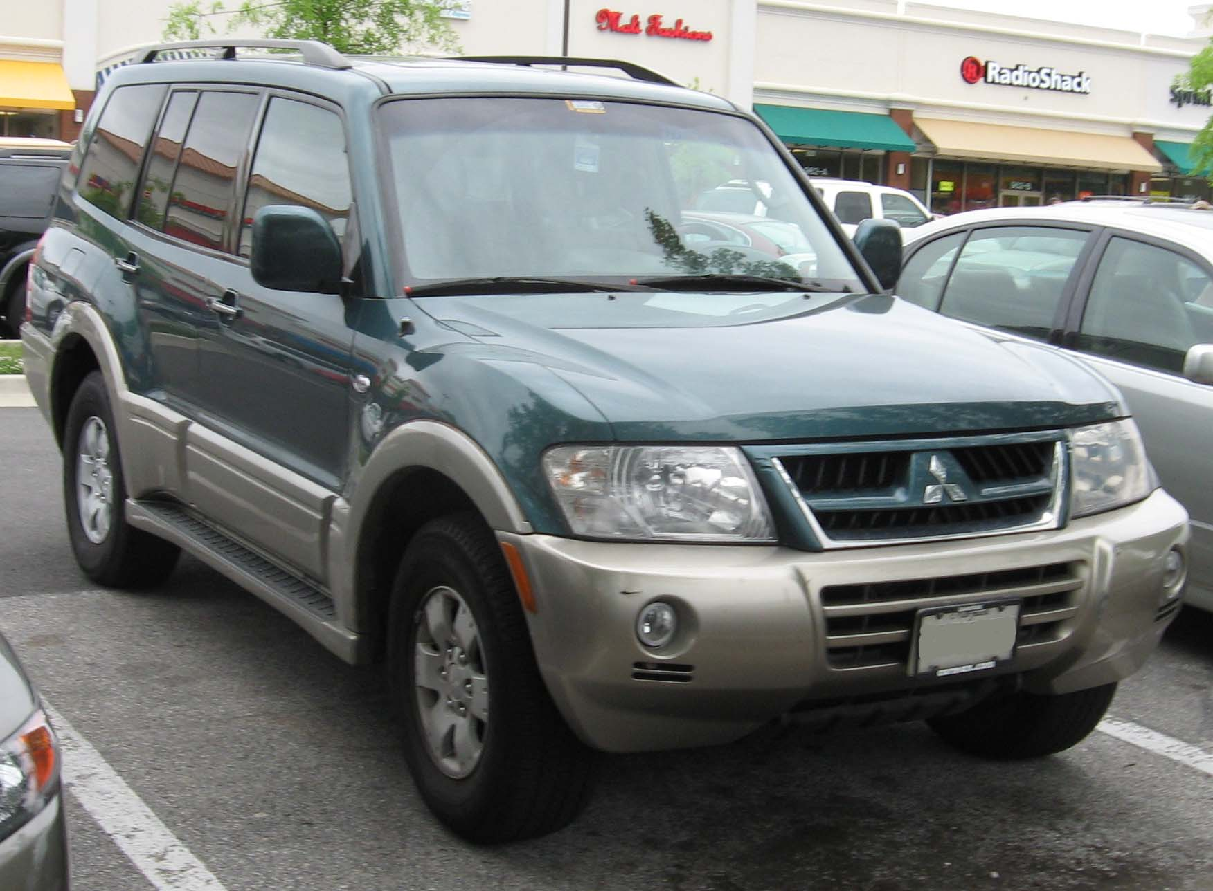 2003-2006 Mitsubishi Montero photographed in USA.